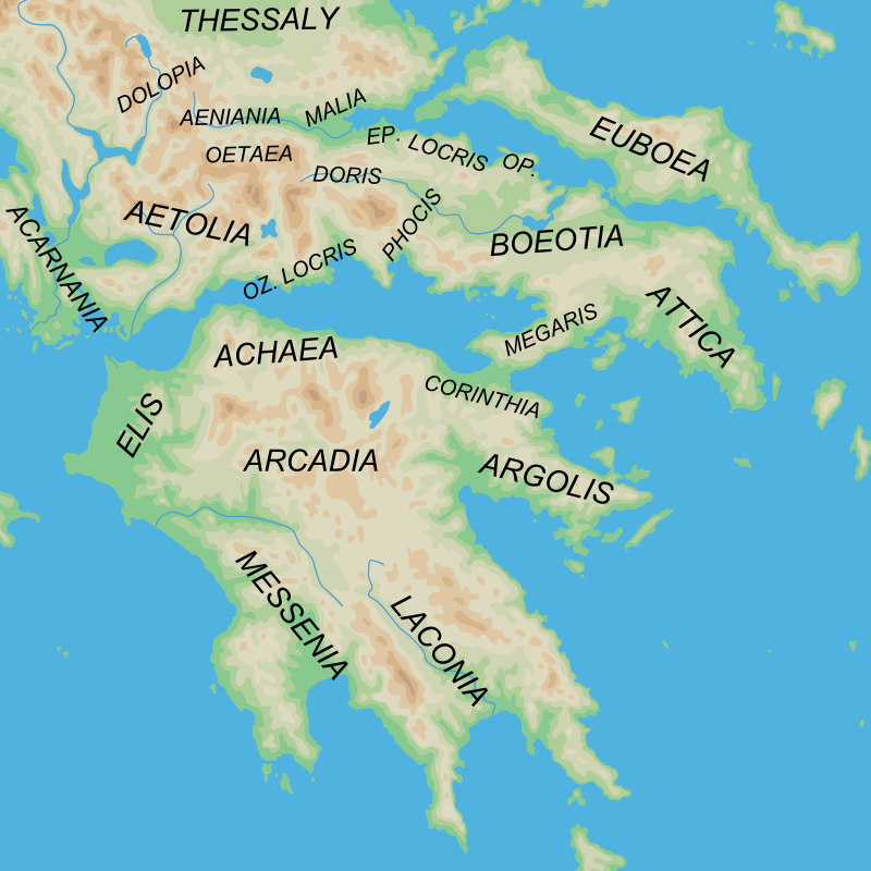 Map of the southern regions of Ancient Greece